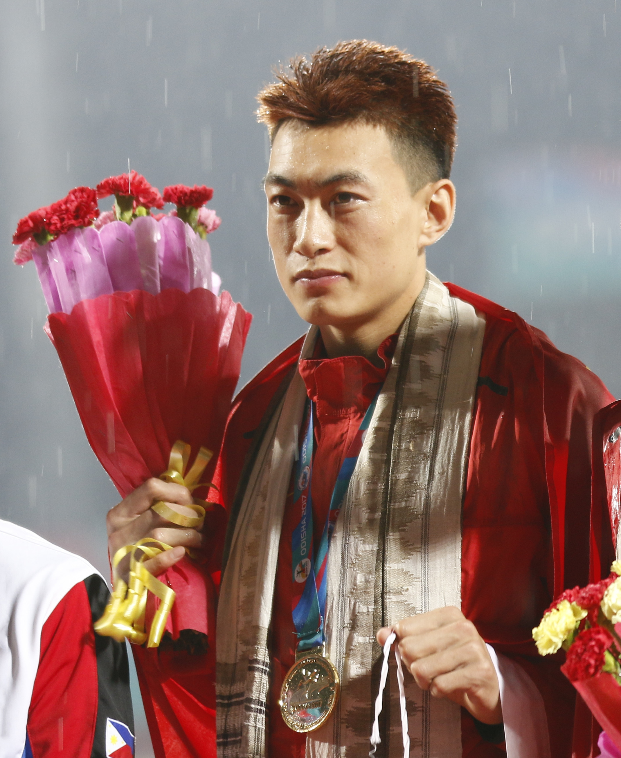 Athletes during 22nd Asian Athletics Championships in Bhubaneswar.